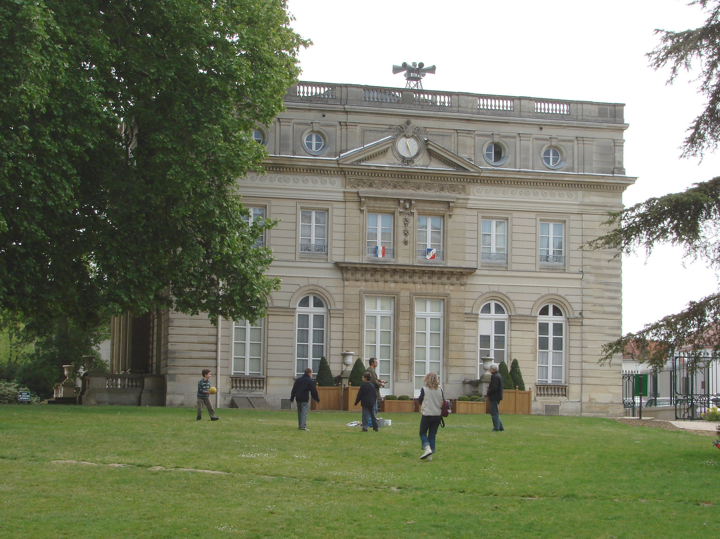 Montmorency, France, Town Hall